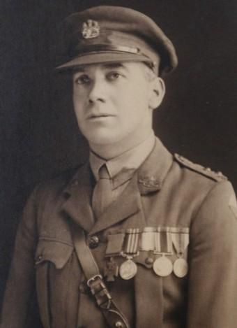 Studio portrait of George M. Ingram VC MM, an Australian recipient of the Victoria Cross during the First World War.